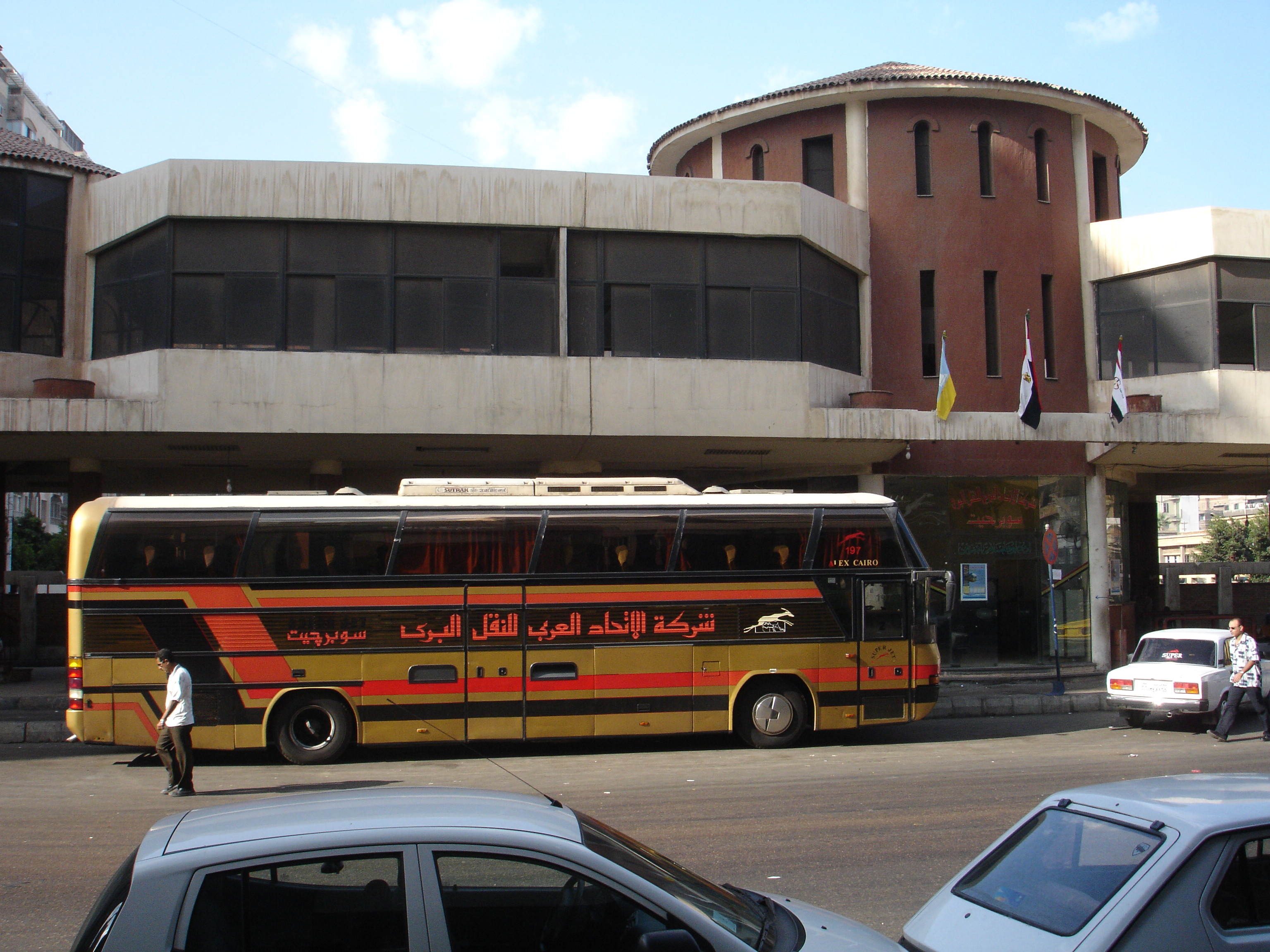 A Superget bus at Sidi-Gaber, Alexandria.